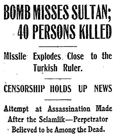 July 22, 1905 BOMB MISSES SULTAN; 40 PERSONS KILLED; Missile Explodes Close to the Turkish Ruler. CENSORSHIP HOLDS UP NEWS Attempt at Assassination Made After the Selamlik -- Perpetrator Believed to be Among the Dead.